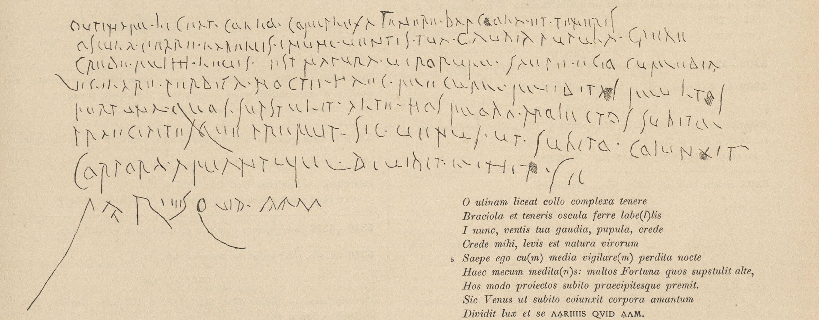 CIL 4.5296: A graffiti poem from Pompeii, discovered in 1888 and first published by Antonio Sogliano that year. This transcription comes from the supplement to volume IV of Corpus Inscriptionum Latinarum.